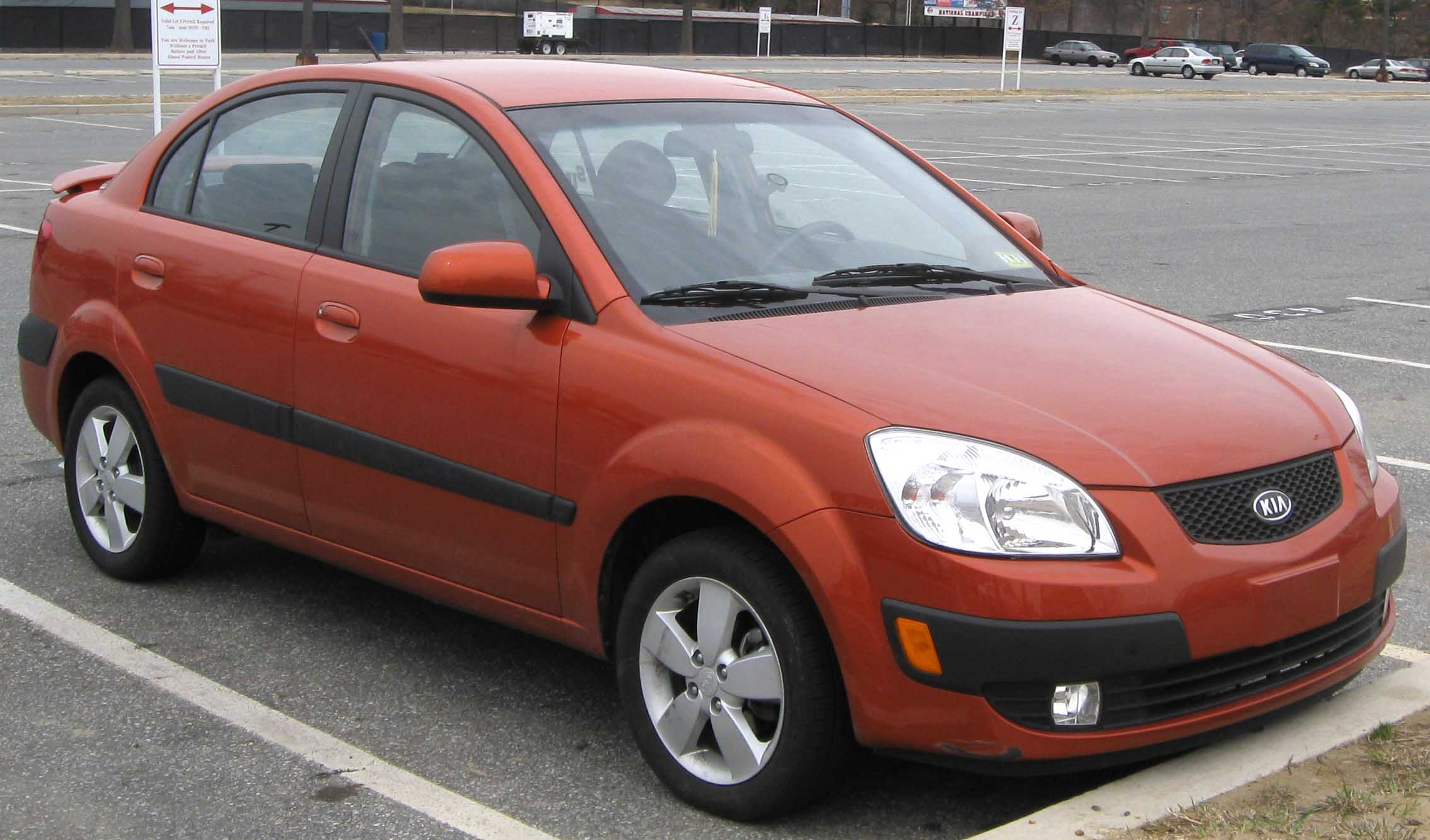 2006-2009 Kia Rio photographed in College Park, Maryland, USA.